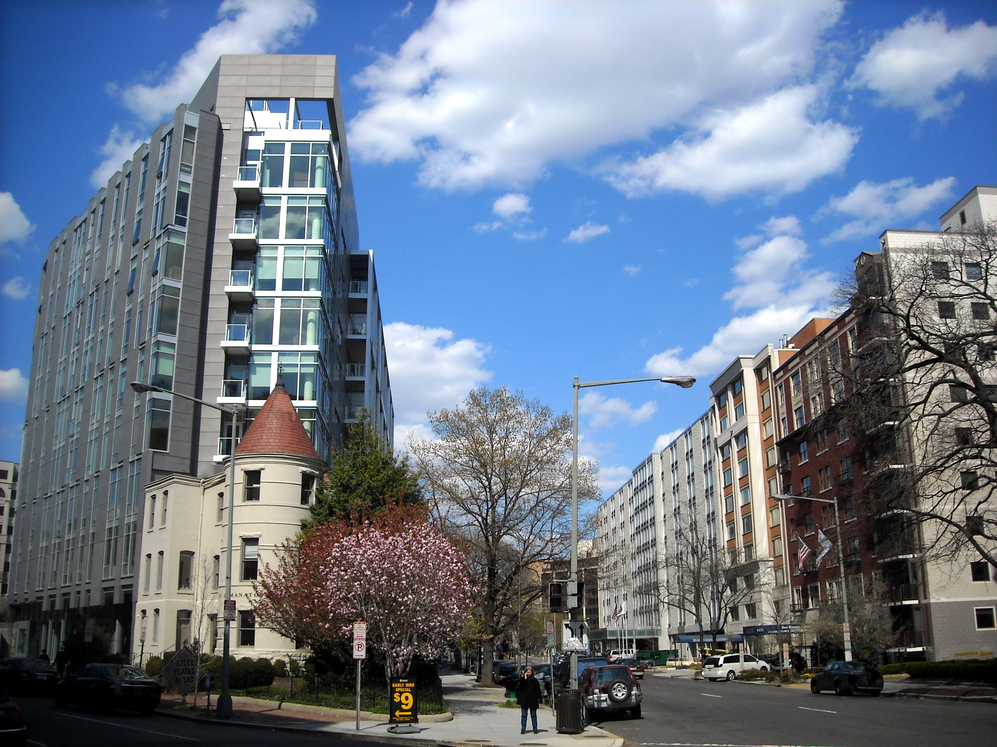 Facing northeast at the intersection of 22nd Street and New Hampshire Avenue, N.W., in the West End neighborhood of Washington, D.C. 22 West (left), a 92-unit, zinc-and-glass, 11-story, luxury condominium, was built by real estate developer Anthony Lanier of EastBanc, Inc., to the designs of architectural firm Shalom Baranes Associates. The $120 million project was completed in 2008. 1100 New Hampshire Avenue, N.W., (left; foreground) is a small commercial property which originally served as a private residence when built in 1902.